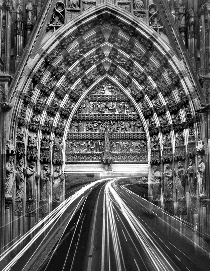 Jan Šplíchal, from the cycle Cathedrals, 1976